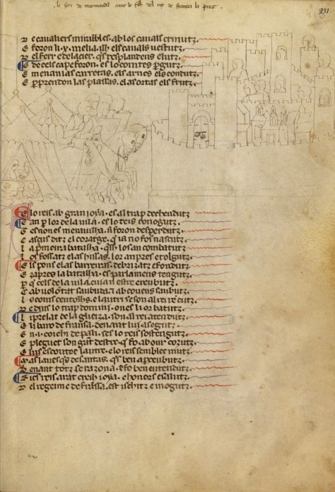 Fol. 231 recto from the manuscript of the Canso de la Crosada